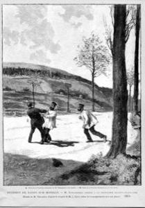 Schnaebelé is grabbed at the borders edge by two German secret police.